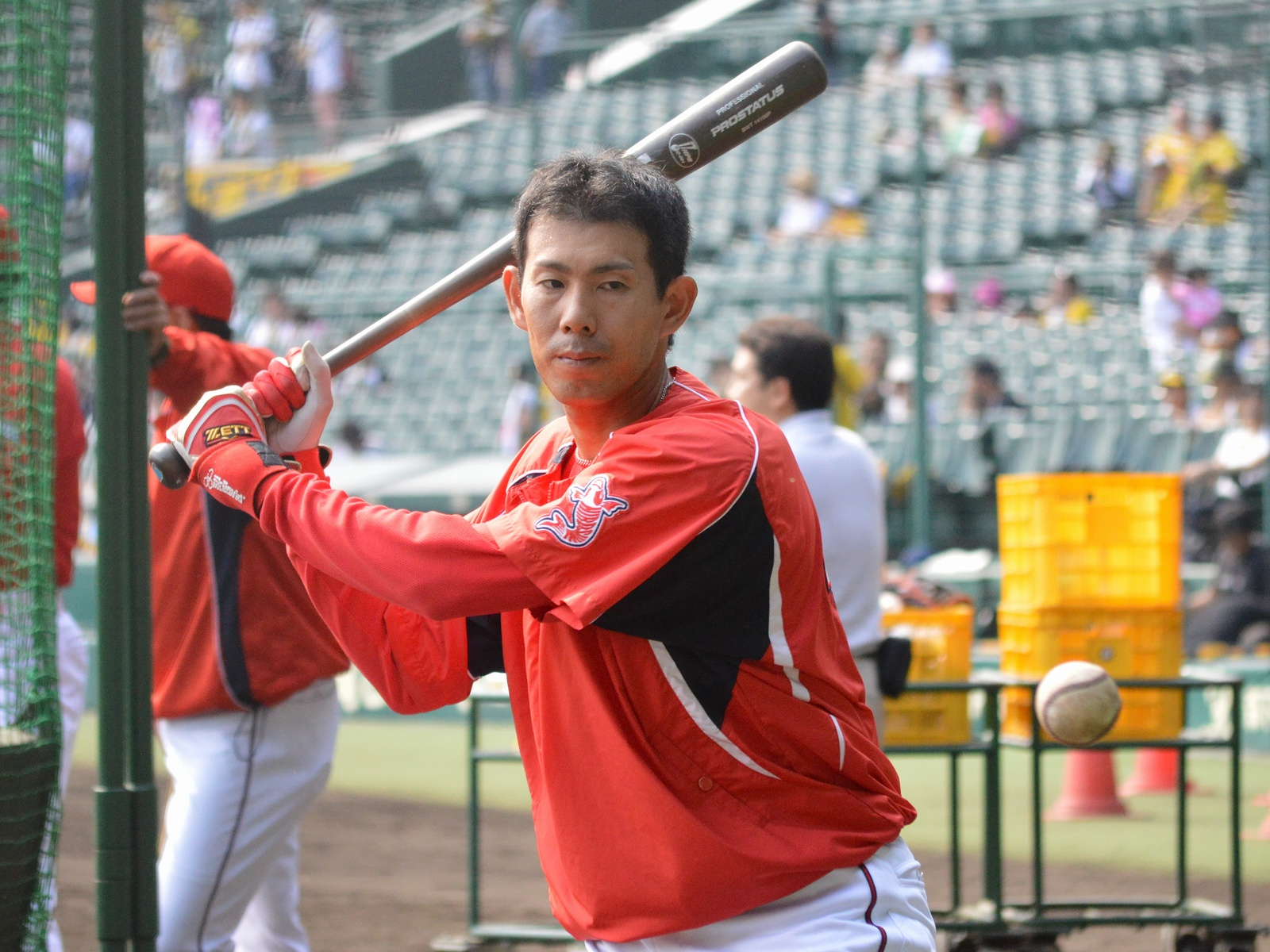 HC-Yuichiro-Mukae20131012